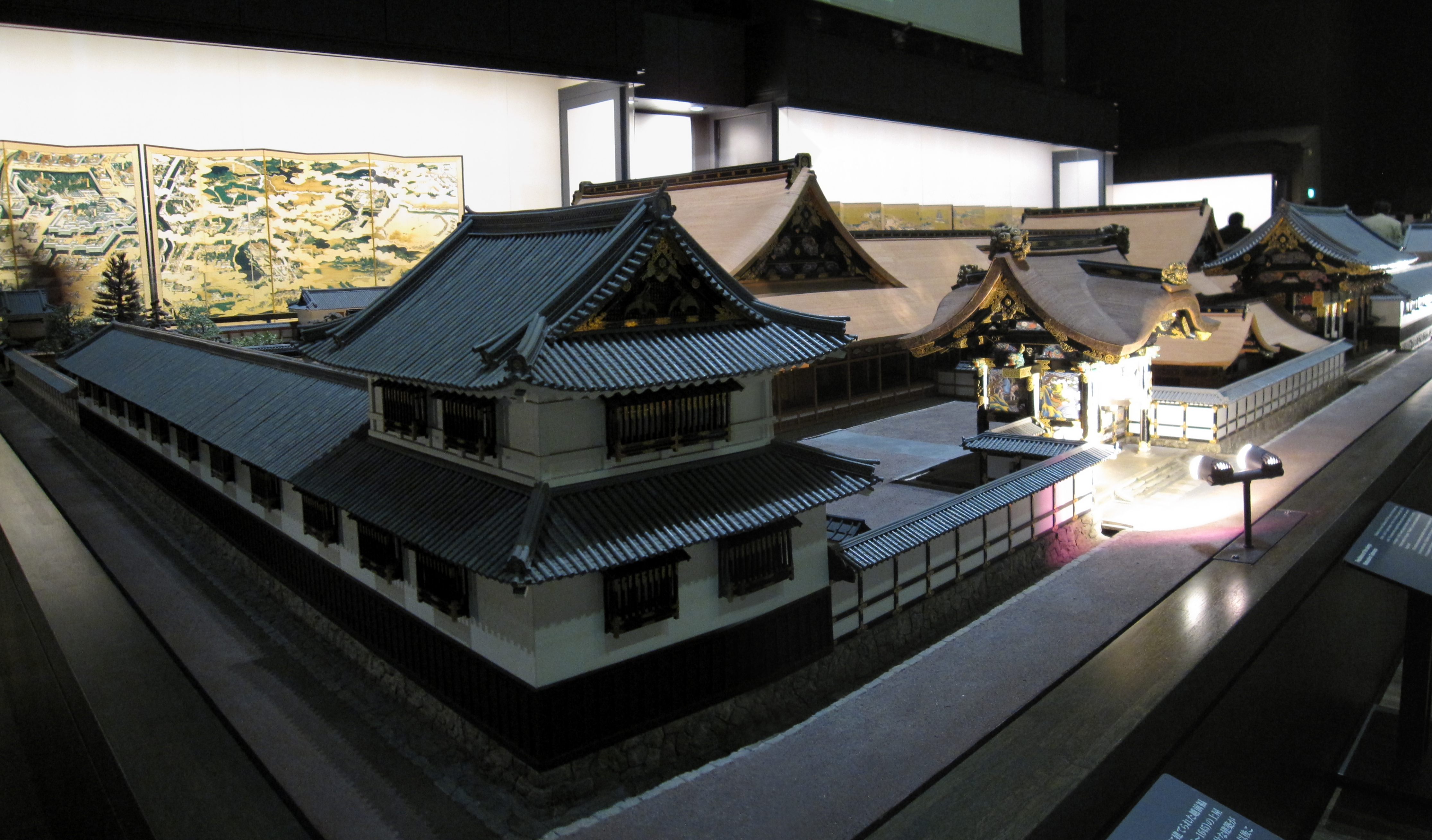 1:30 architectural model of the residence of the daimyo Matsudaira Tadamasa, at the Edo-Tokyo Museum.